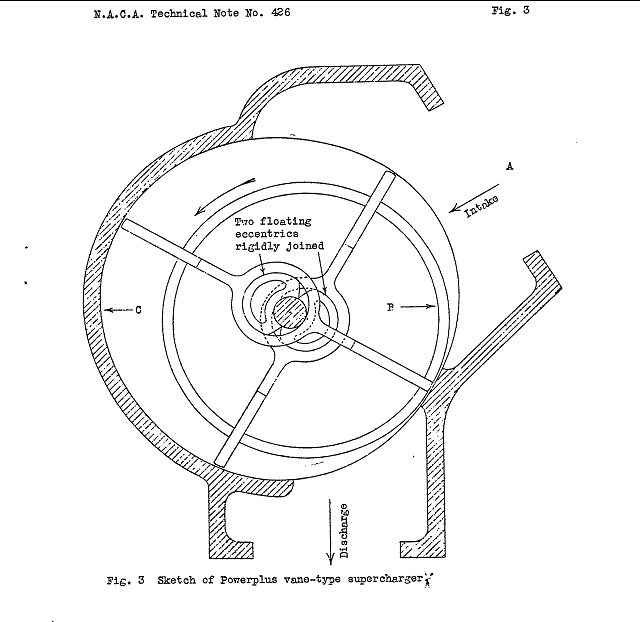 Cross-section diagram of a Powerplus_vane-type_supercharger